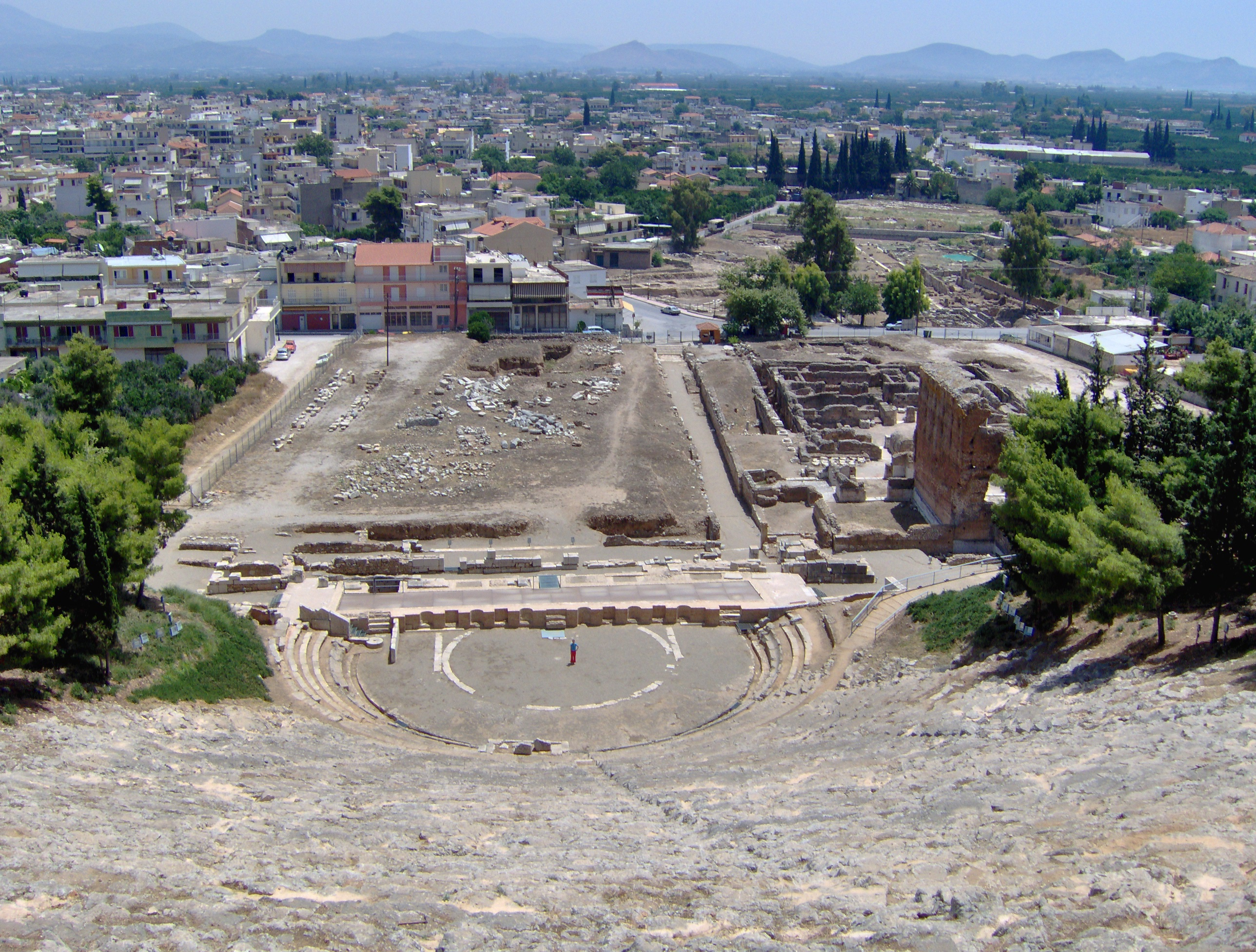 The ancient theatre in Argos